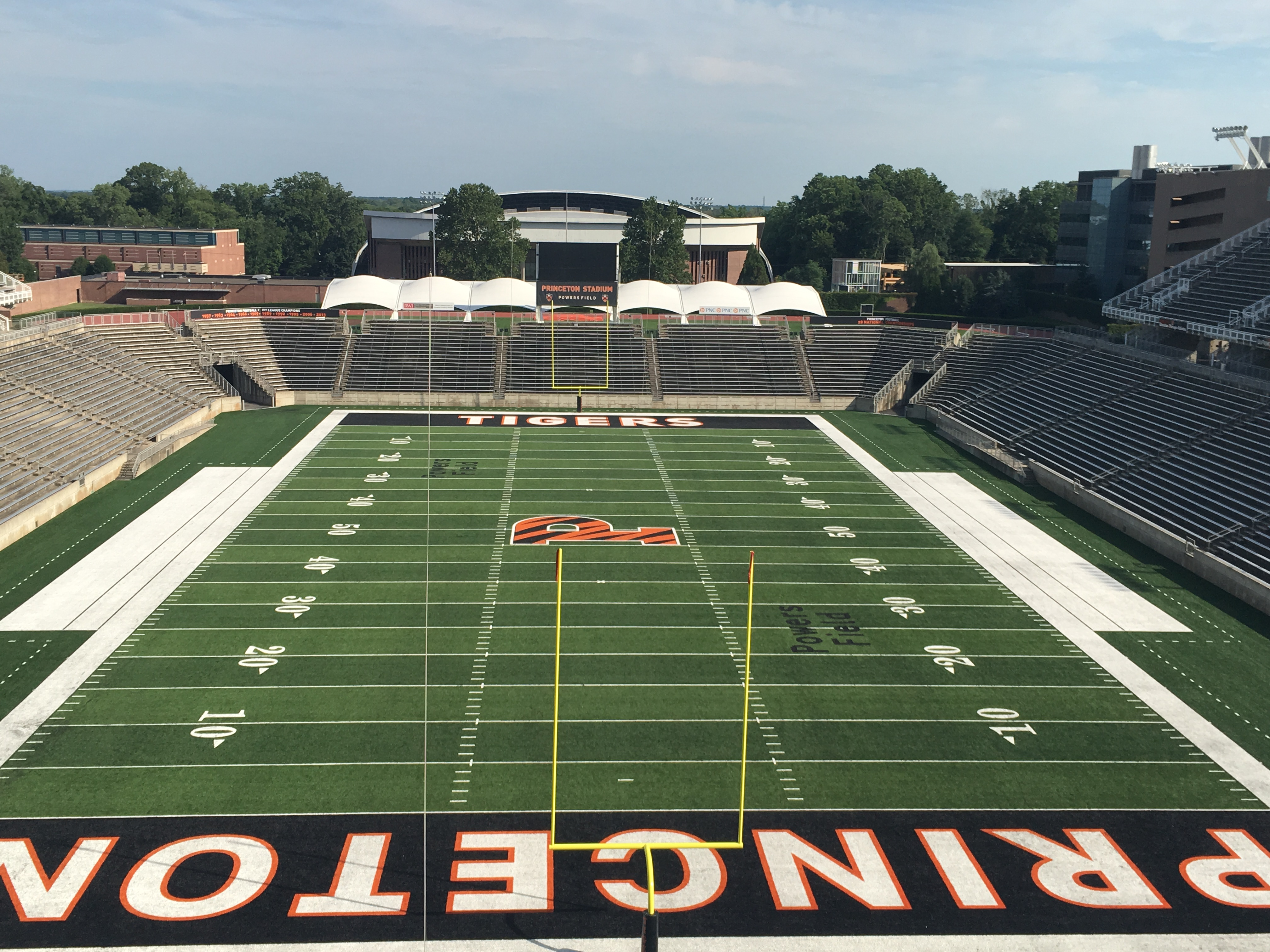 Princeton University Stadium (During the off-season)